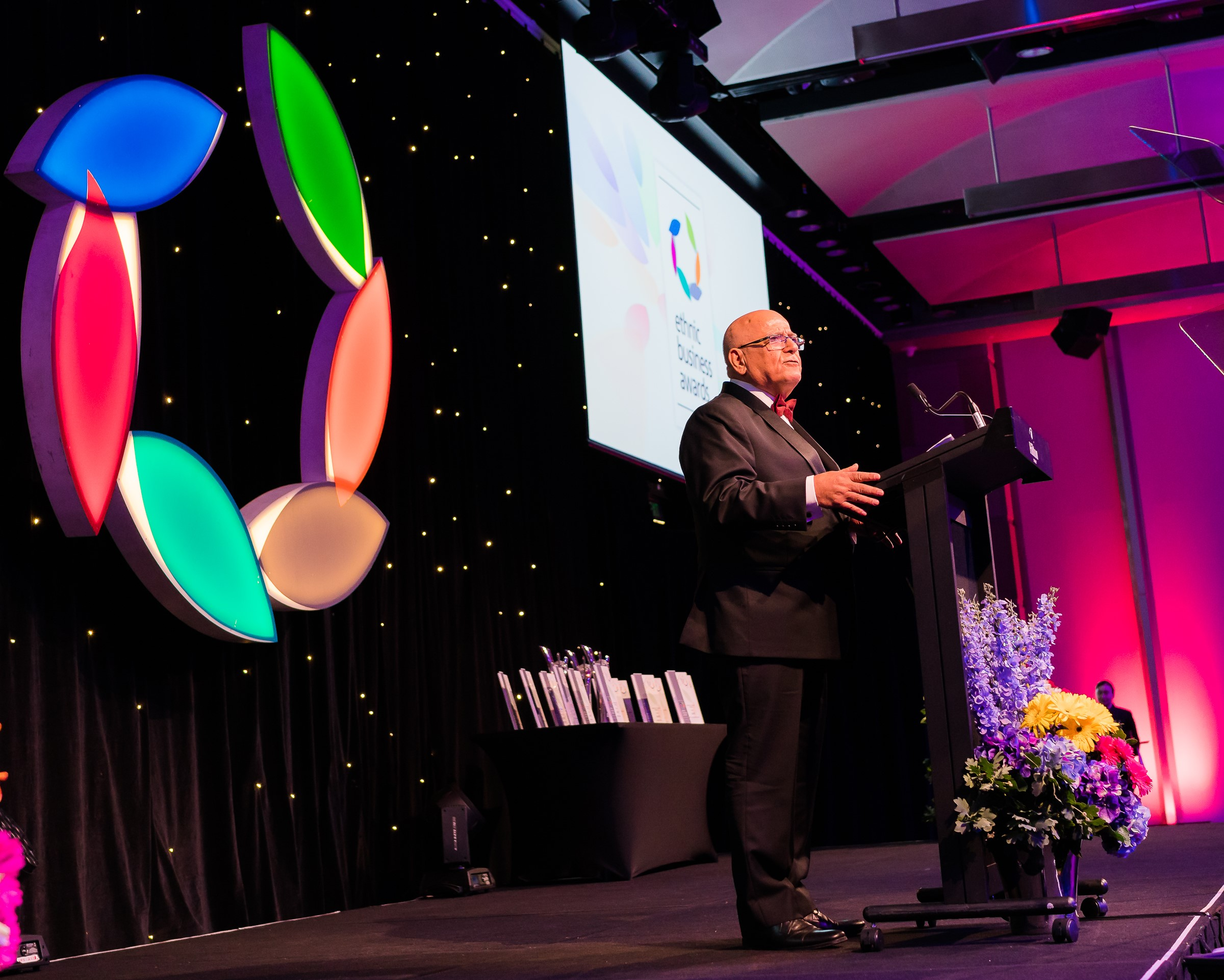 Joseph Assaf addresses the audience at the 30th Annual Ethnic Business Awards Gala Presentation Dinner